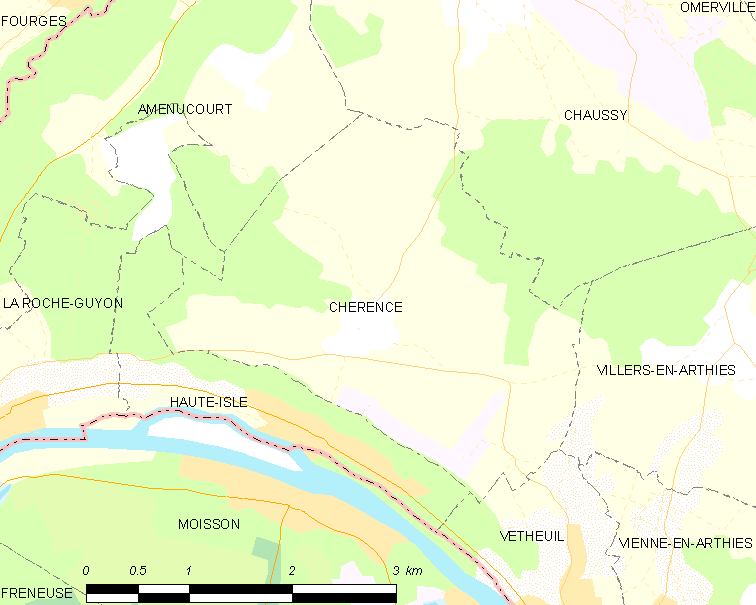 Map of French municipality Chérence